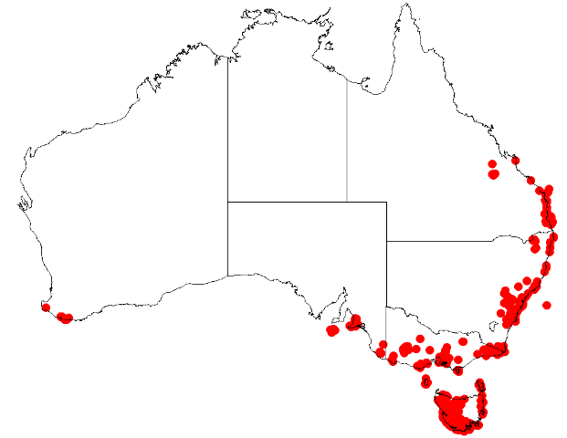 Drosera binata Drosera binataDistMap12 occurrence downloaded from avH on 7 March 2019 using the